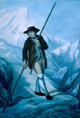 An image of Jacques Balmat, who completed the first ascent of Mont Blanc